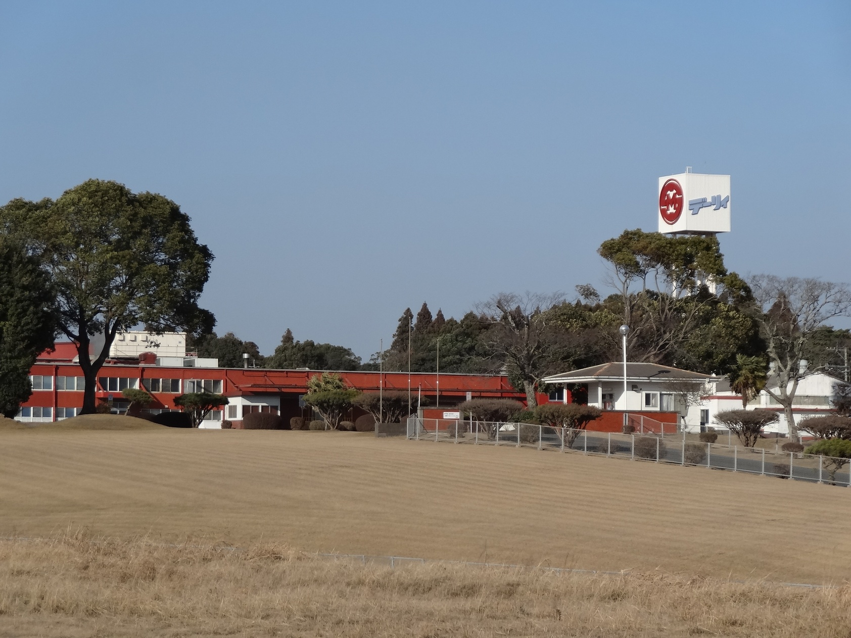 Minami Nihon Rakuno Kyodo (Dairy Company) - Kanoya Factory (Kanoya City, Kagoshima Prefecture, Japan)